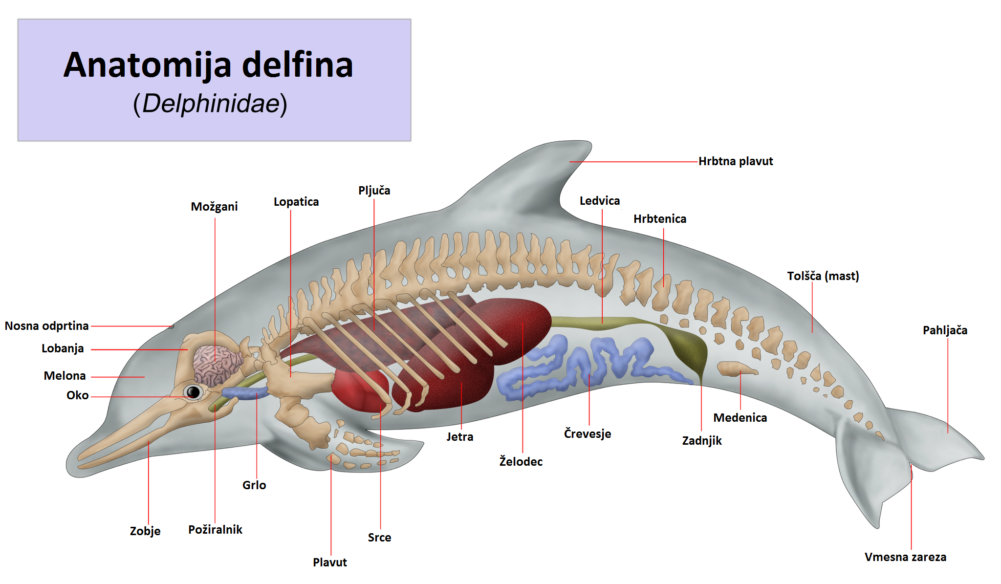 Dolphin anatomy in Slovenian language